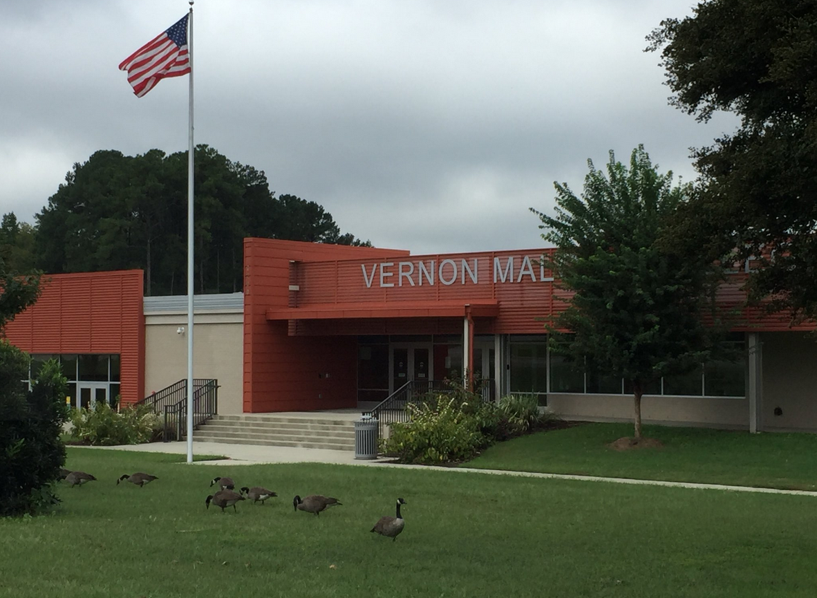 Vernon Malone building.